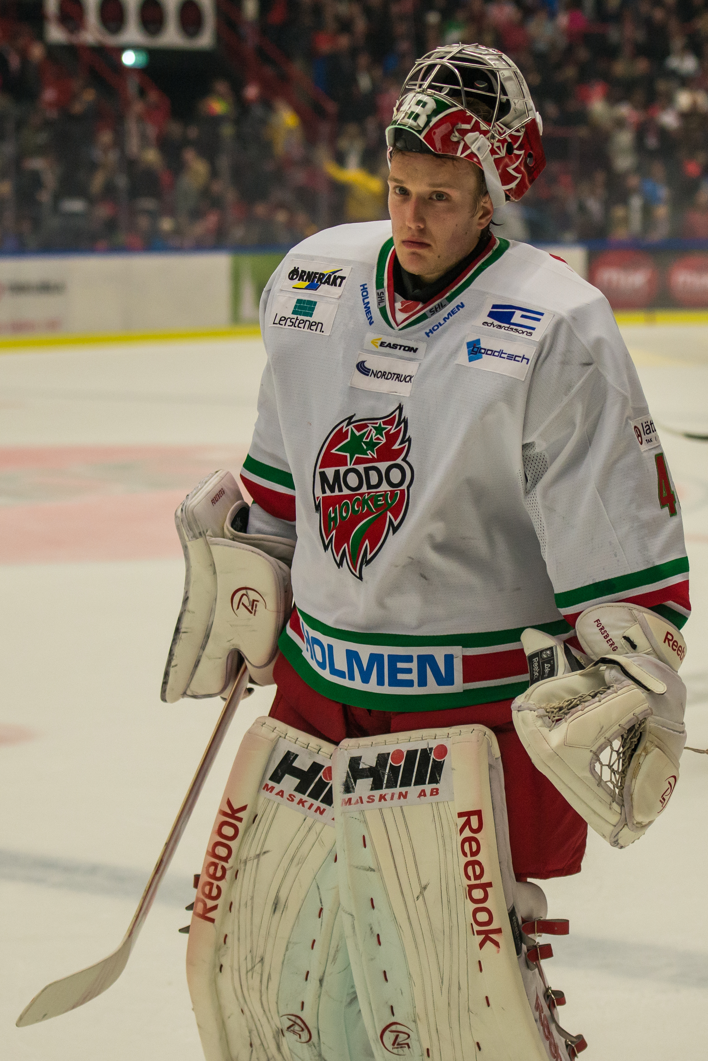 Anton Forsberg playing for MODO Hockey in SHL (Sweden's highest league) against Örebro HK in Behrn Arena 2013-10-05.